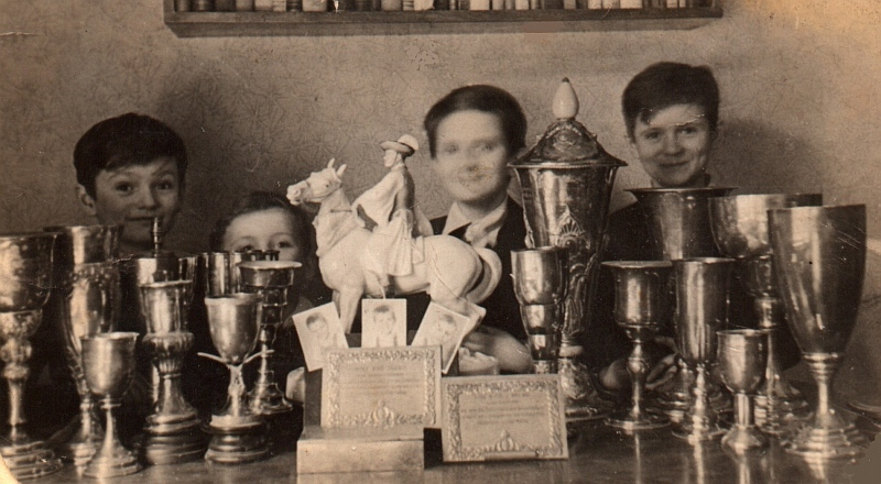 Jozsef Arpad Biro Awards (behind hissons Joci,Matyas ,Zoltan and cousin Csaba)